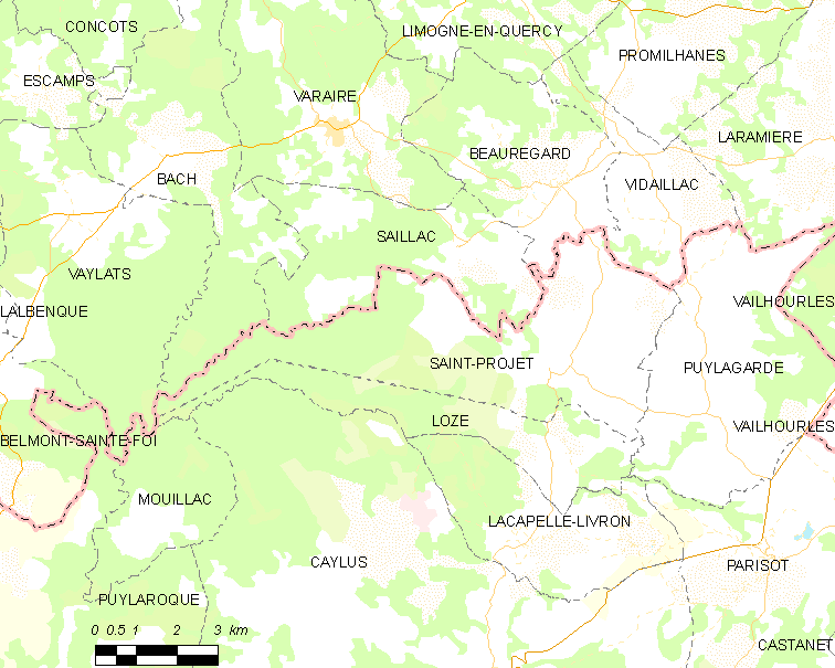 Map of French municipality Saint-Projet